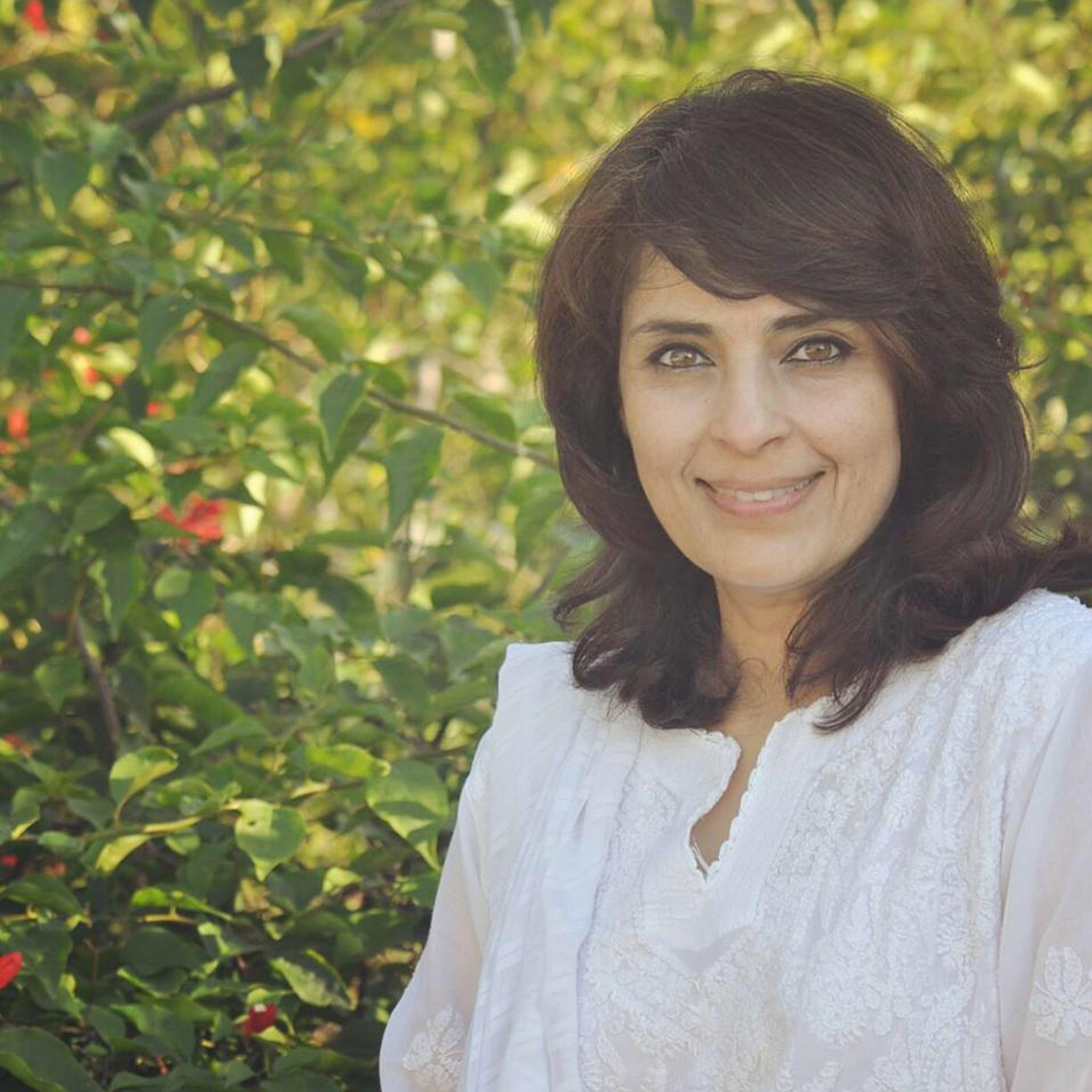 Photograph of Samar Minallah